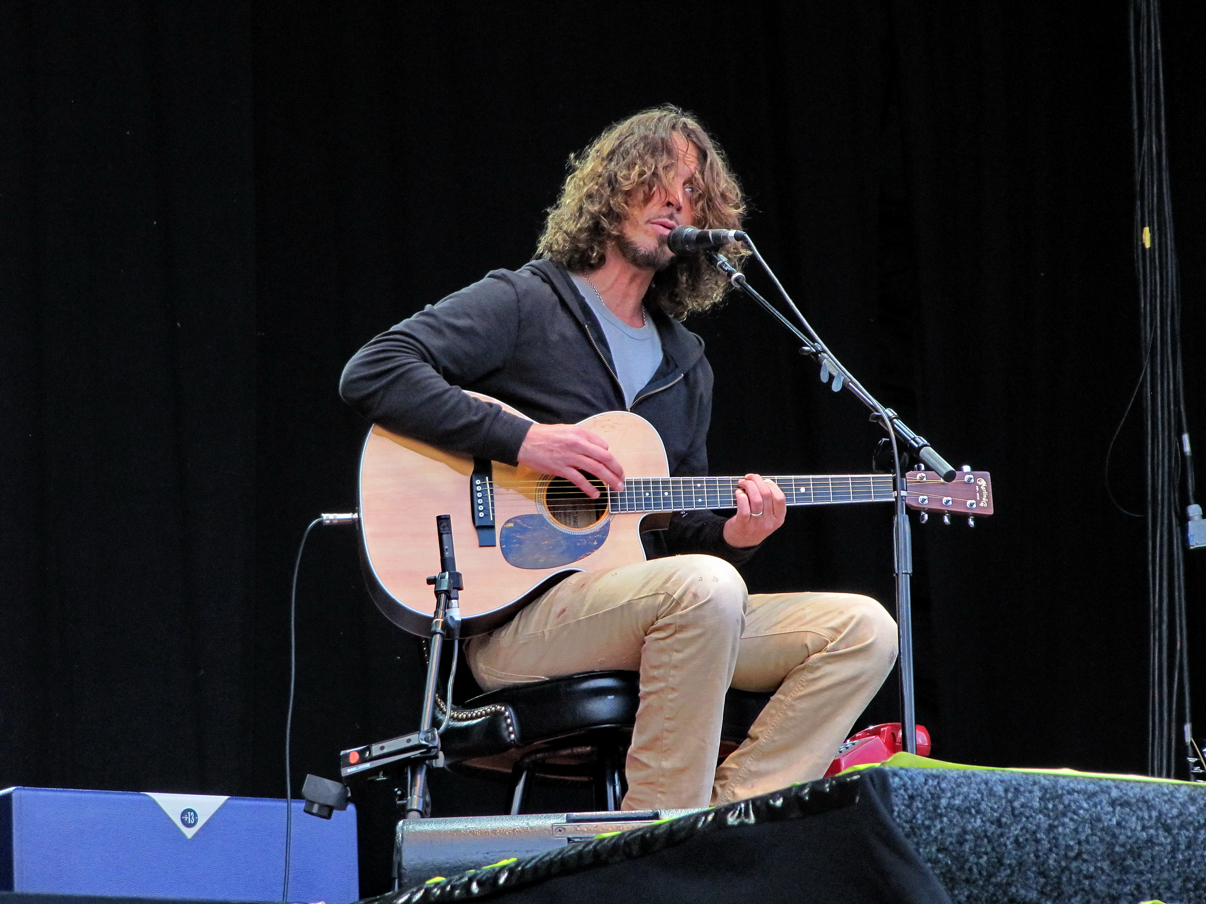 Chris Cornell live at 2012